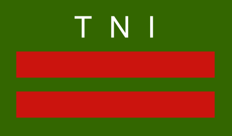 First Private rank insignia that used on daily uniforms of Indonesian Army